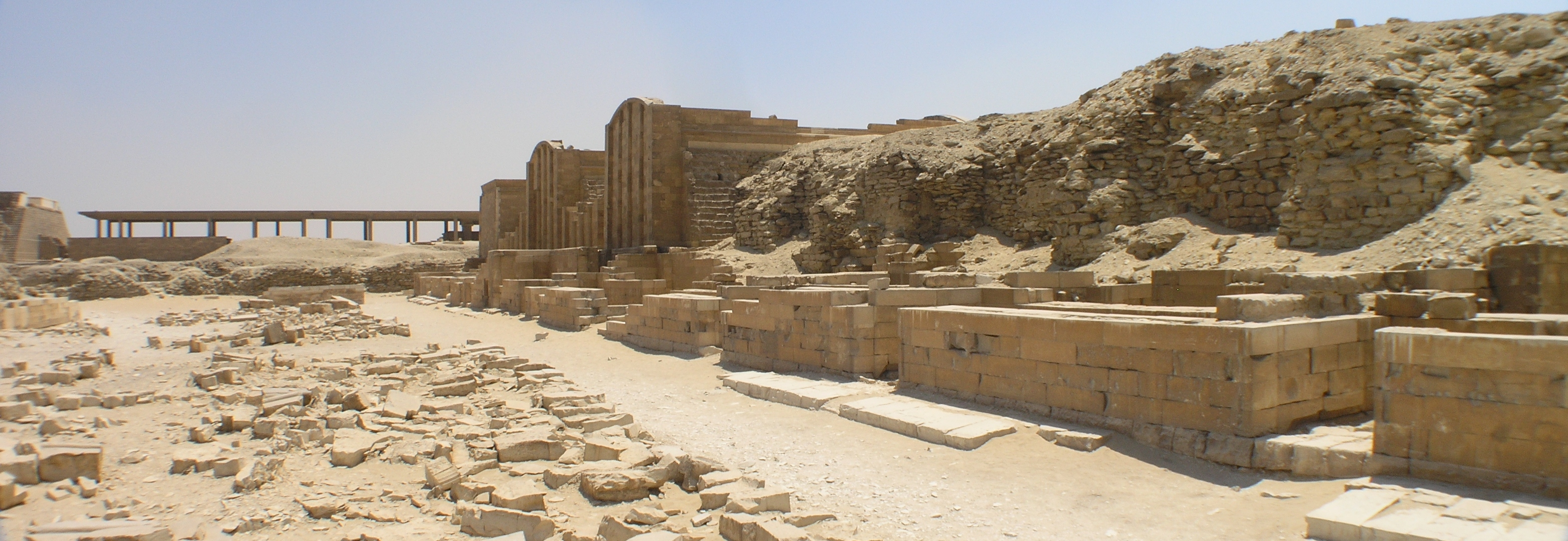 Saqqara - Pyramid of Djoser complex - Heb-sed Court - view 2